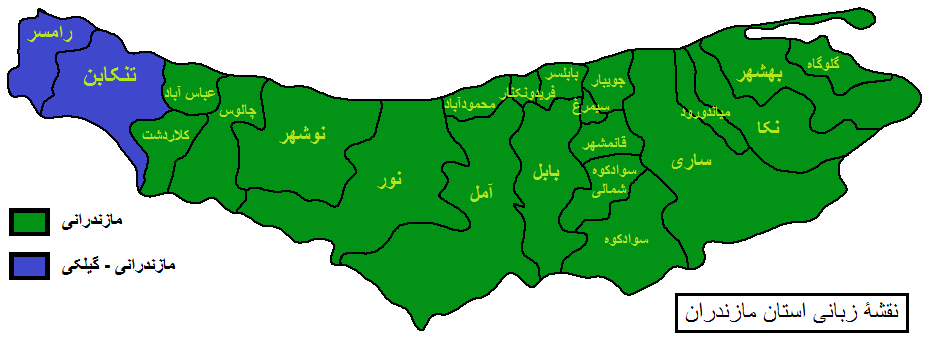 Lingusitic Map of Mazandaran Province